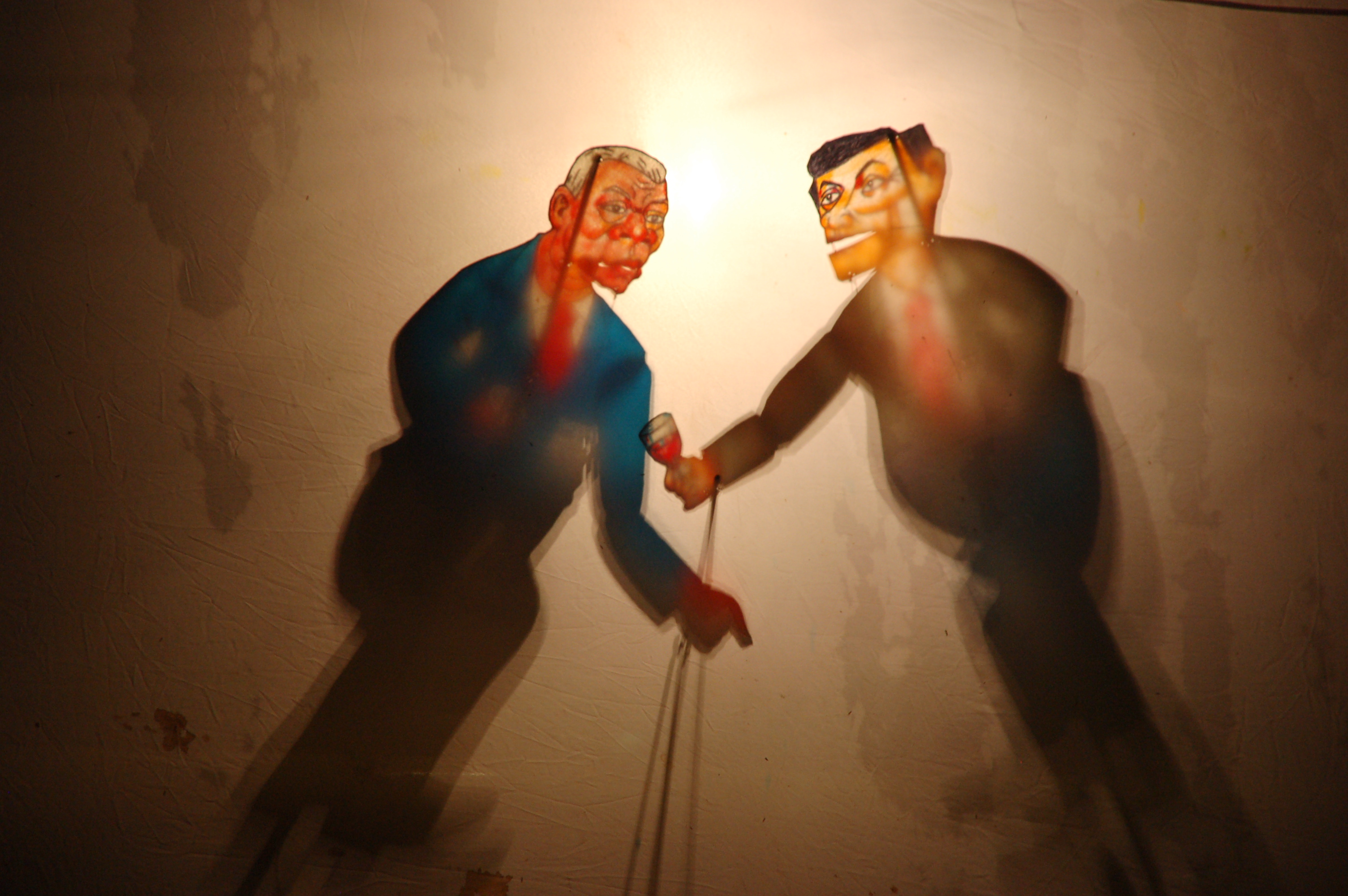 Shadow puppets by Vasan Sitthiket in a performance in Trang province, Thailand. The figures show the character of Samak Sundaravej and Thaksin Shinawatra.